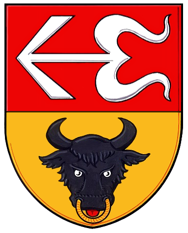 Coat of arms of Plumlov municipality, Prostějov District, Czech Republic